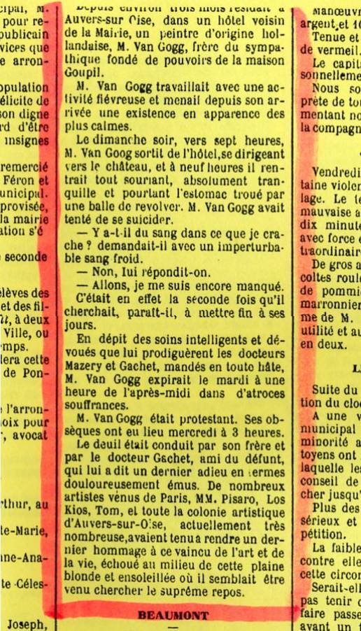 Notice of Vincent van Gogh's suicide and funeral appearing in Le Régional 7 August 1890